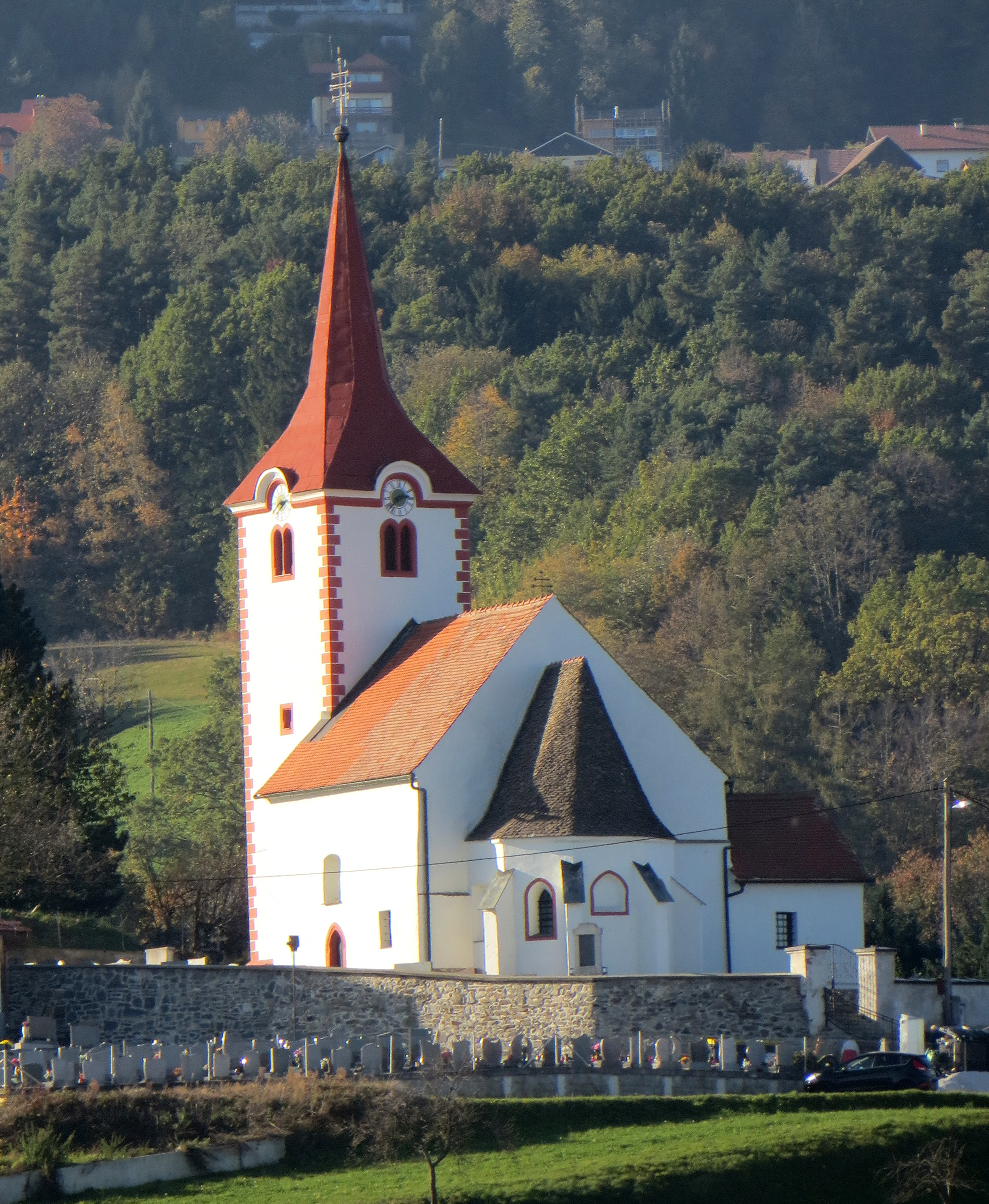 Archangel Michael Church in Razvanje, Municipality of Maribor, Slovenia